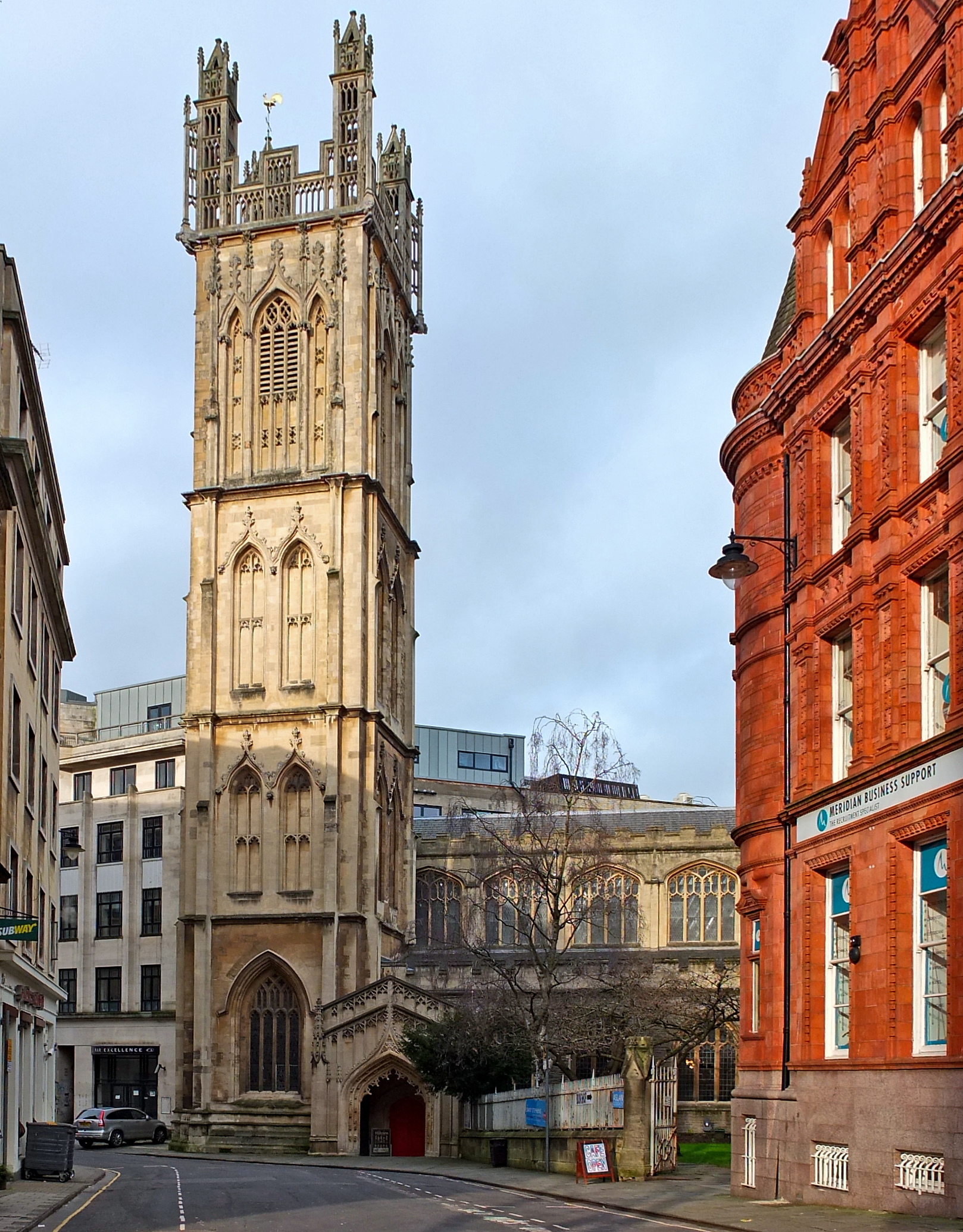 View north along St Stephen's Avenue, Bristol, England, to St Stephen's parish church